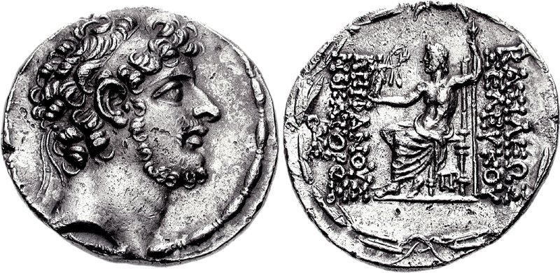 Sale: CNG 76, Lot: 802. Estimate $1000. Closing Date: Wednesday, 12 September 2007. Sold For $1415. This amount does not include the buyer’s fee. SELEUKID KINGS of SYRIA. Seleukos VI Epiphanes Nikator. Circa 96-94 BC. AR Tetradrachm (15.72 g, 1h). Diademed head right / Zeus Nikephoros seated left; monograms to outer left and below throne. SNG Spaer 2775; SMA -. Near EF, toned, scattered field marks.